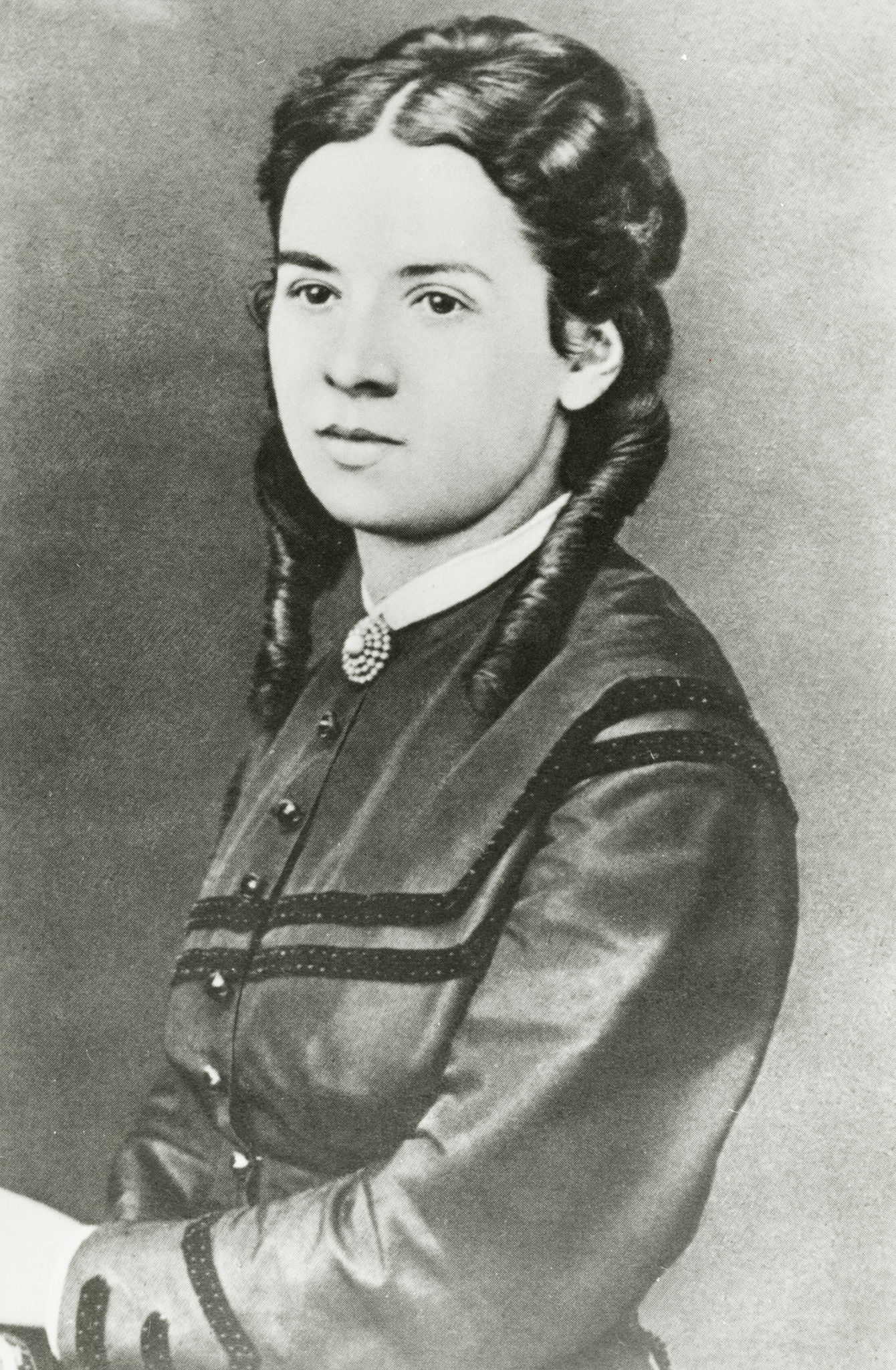 Jenny Marx photograph nicht Jenny Marx sondern Gertrud Kugelmann